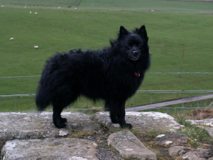 This is my own picture and release it to the public domain. This is a picture of 'Deedee'. She is 12 years old and is seen here posing on Hadrians wall in Scotland (Mile fort 42). She is about as big as a Mittel can be. The picture shows her with her tail down which is probably due to the cold wind!